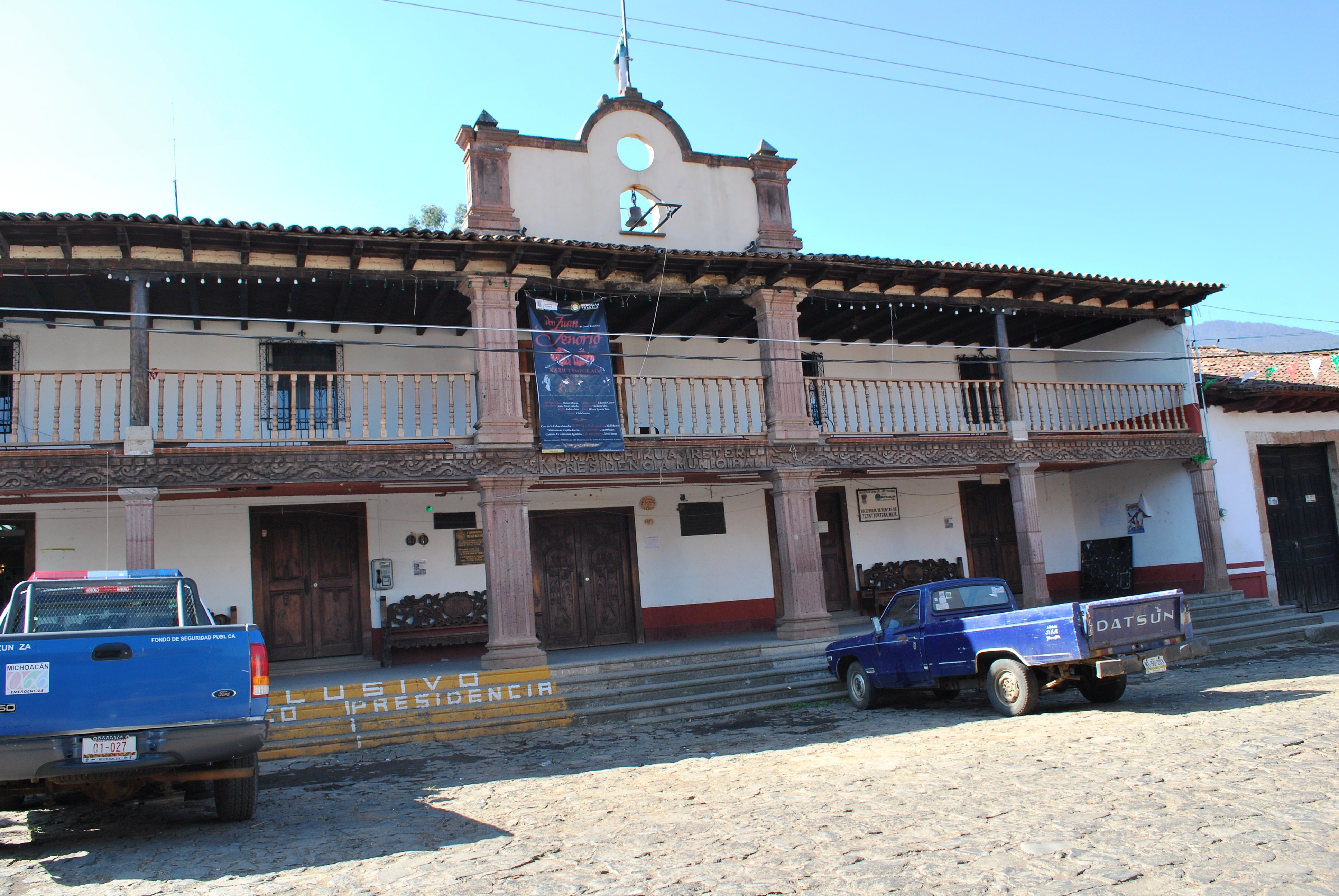 Municipal Palace of Tzintzuntzan, Michoacan.